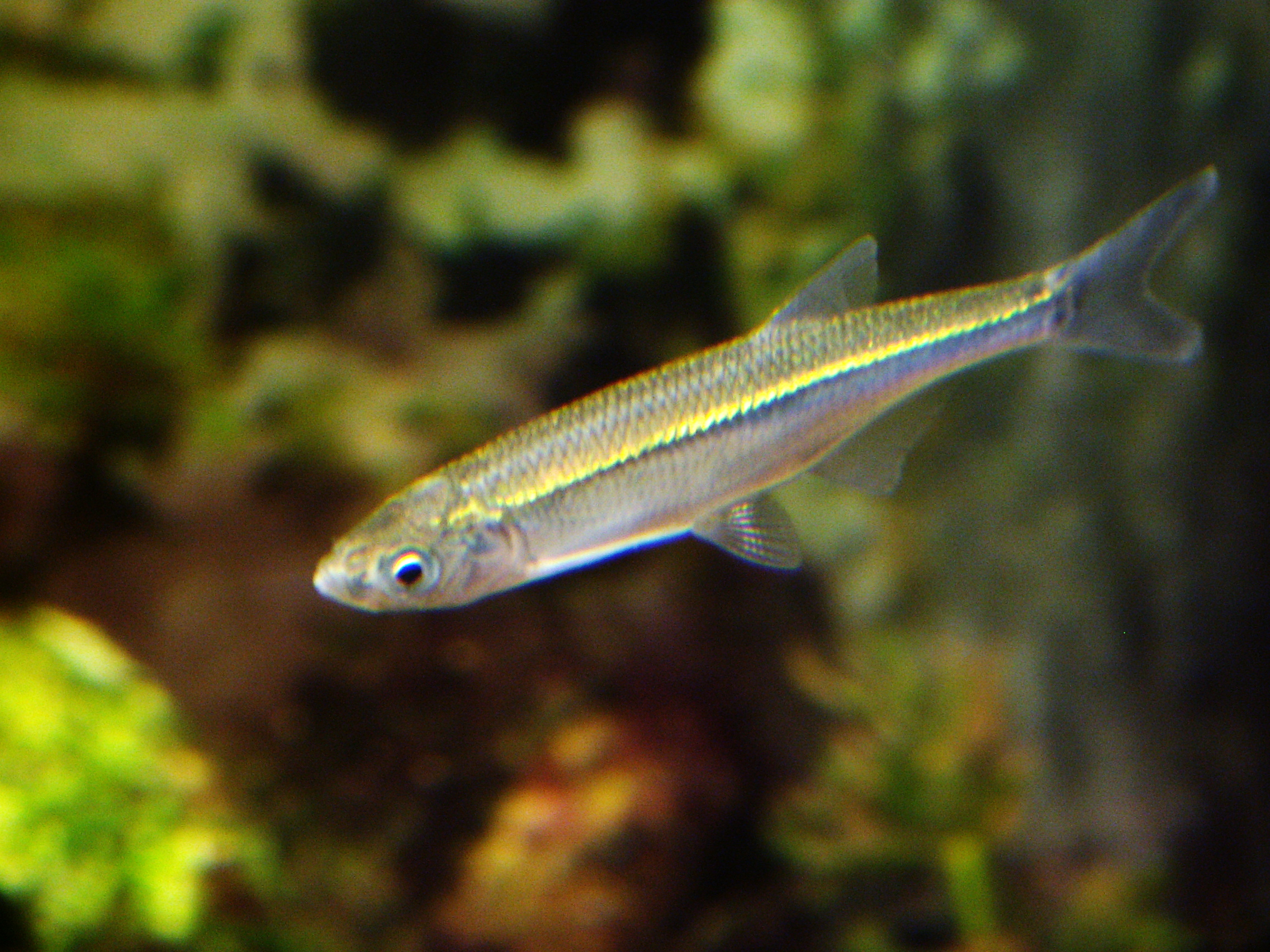 Alburnus alburnus young